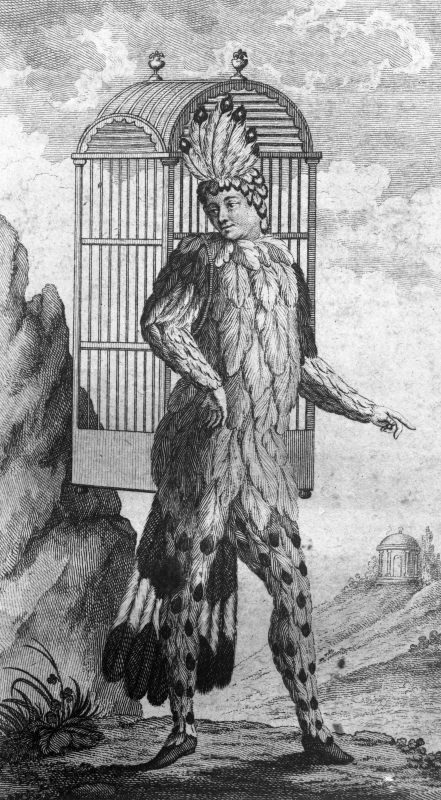 Emanuel Schikaneder as the first Papageno in Mozarts Die Zauberflöte. Front page of the original edition of the libretto of the Zauberflöte.